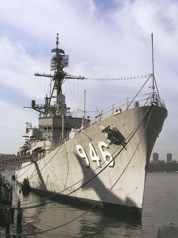 The 1958 32+ knot Forrest Sherman class destroyer was built at the Bath Iron Works, Bath, Maine. It was decommissioned in 1988 and resided at the Intrepid Air/Sea/Space museum in New York in 2003.